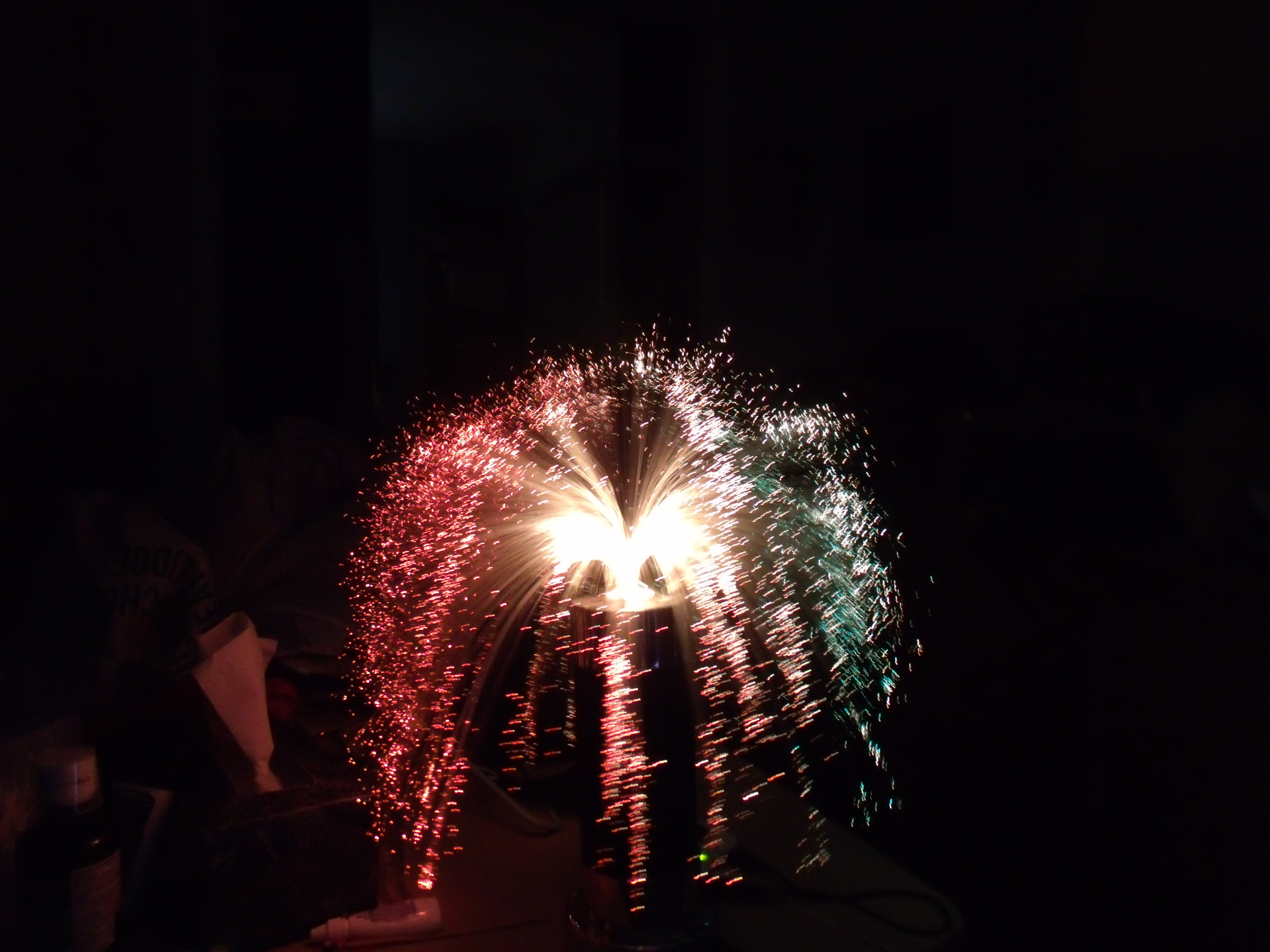 Here, optical fiber is used in a lamp, of unknown origin; the light from a small bulb is shown illuminating the fibers, while the same lamp's light is passed through colored lens to provide illumination via the optical fiber. Device is useful as a nightlight, as well as to illuminate parties and other occasions. The device rotates; this accounts for the blurring.